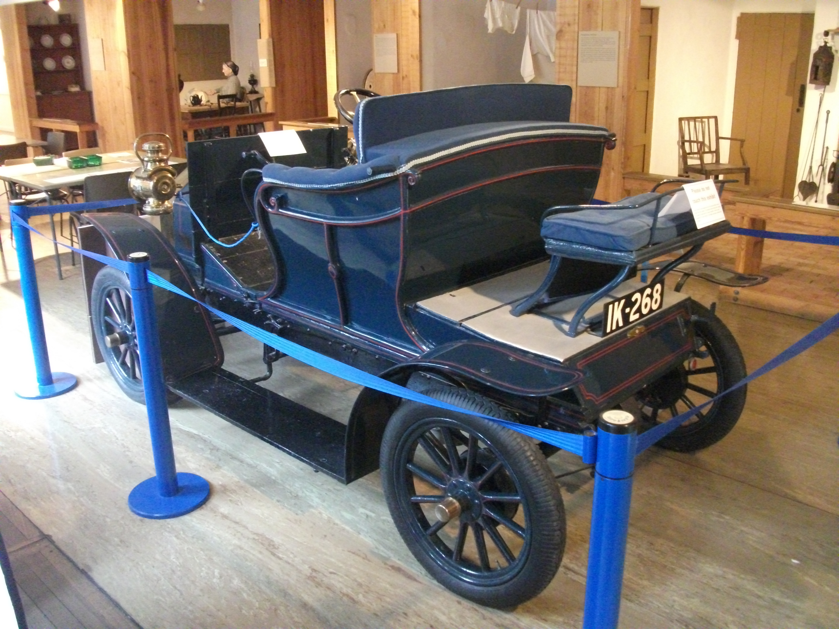 Adams Mail Phaeton car, made at Elstow Road in Bedford in 1907. On display at Bedford Museum.